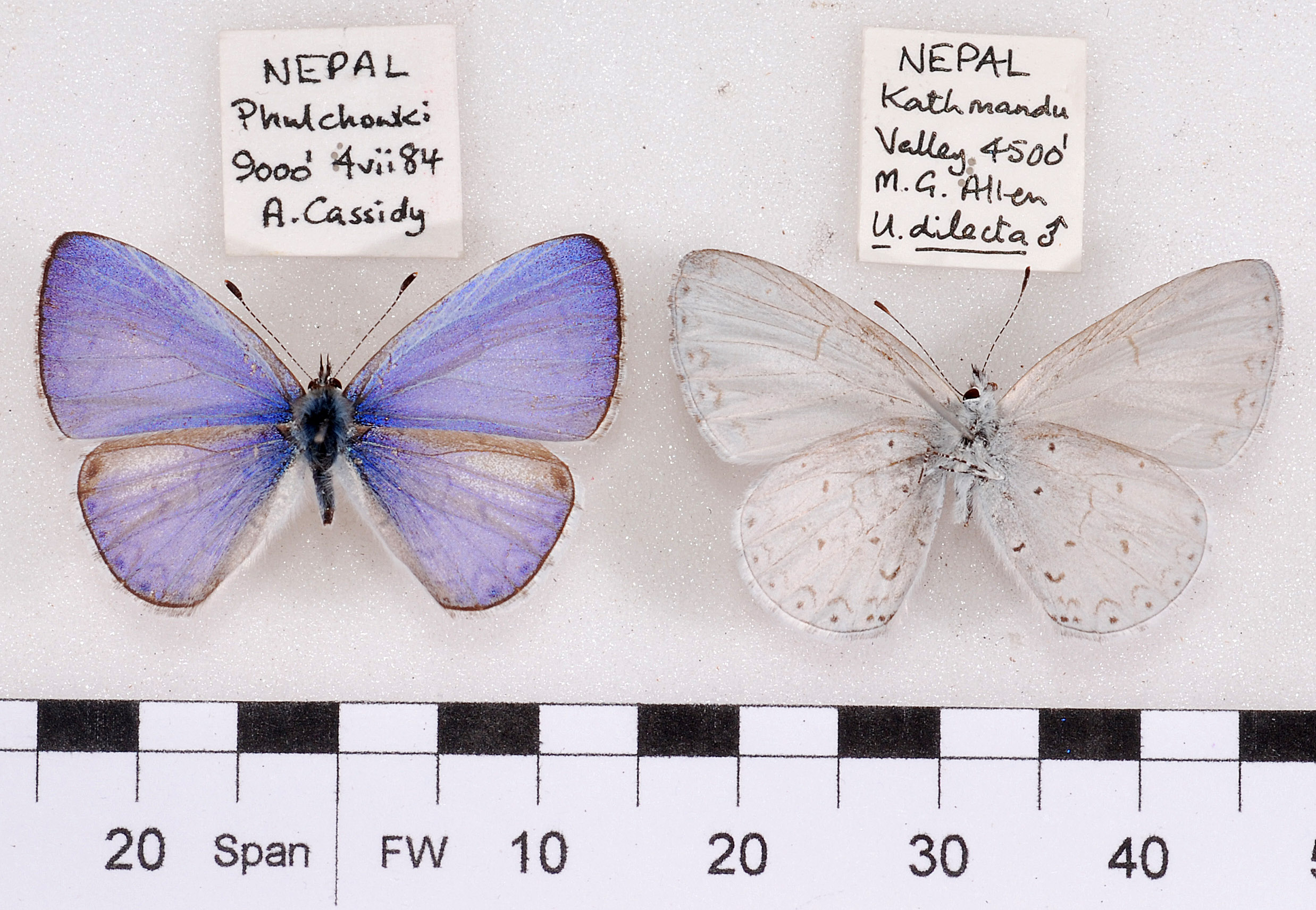 Udara dilecta dilecta, Male, set specimen, Nepal